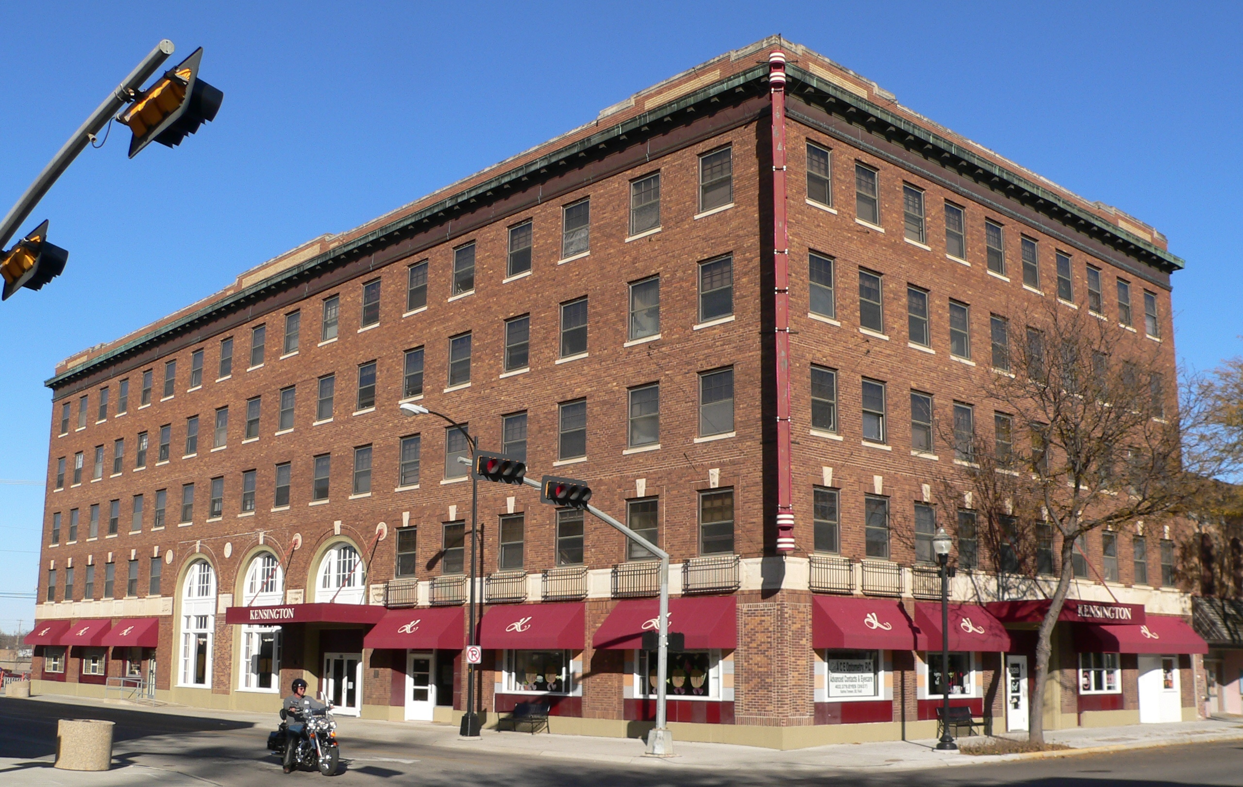 Kensington Building, located at 108 N. 4th St. in Norfolk, Nebraska, seen from the southwest. The building was designed by the architectural firm of H. L. Stevens Co. and built in 1926. The architectural style is classified as Colonial Revival or Georgian revival. The building is listed on the National Register of Historic Places as the Hotel Norfolk. It currently houses apartments and several businesses.